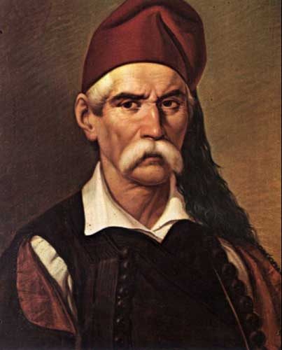 Nikitaras(Nikitas Stamatelopoulos)